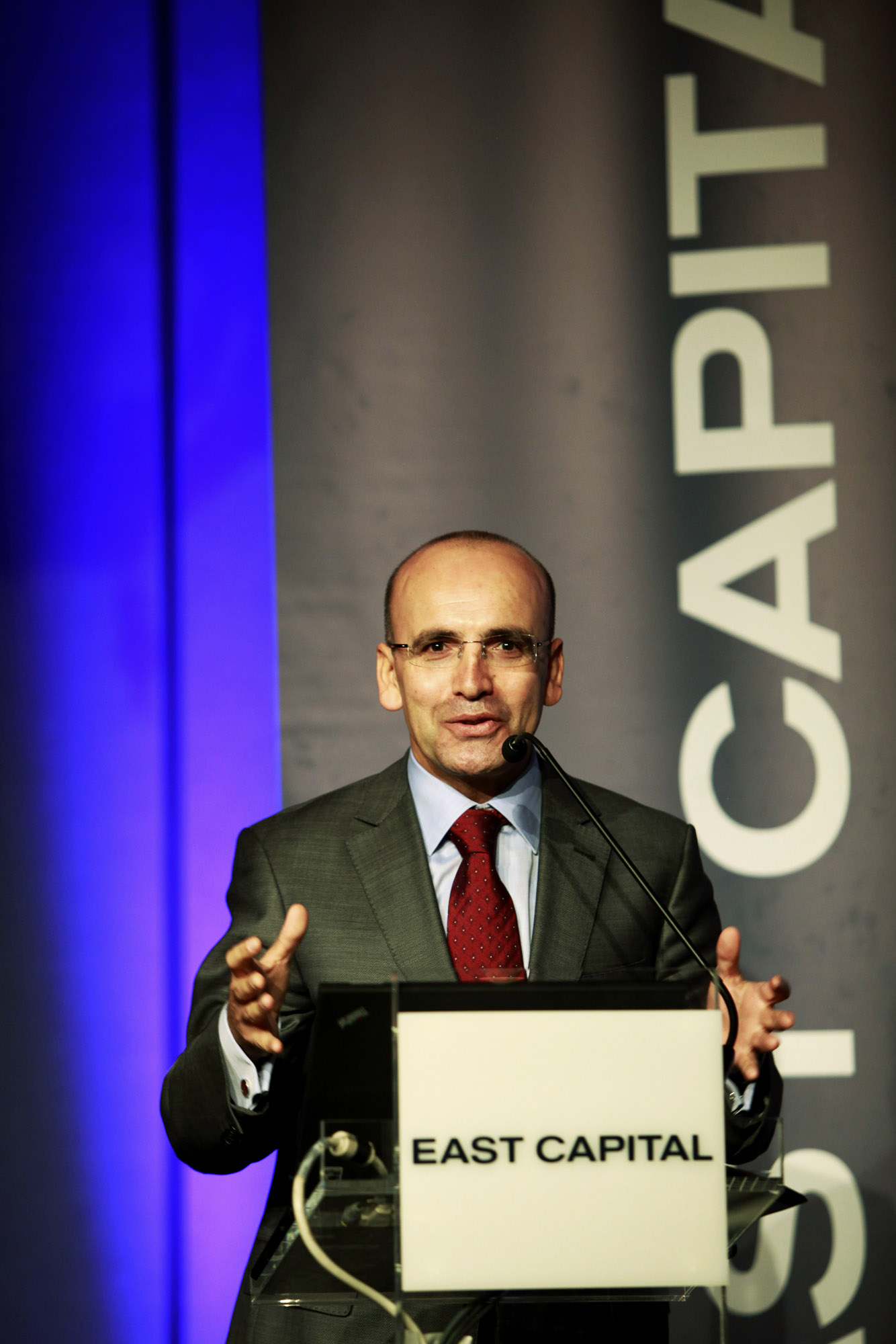 Mehmet Şimşek, Minister of Finance, Turkey, speaking at the East Capital Istanbul Summit 2011, 15 September Photographer: Snezana Vucetic Bohm